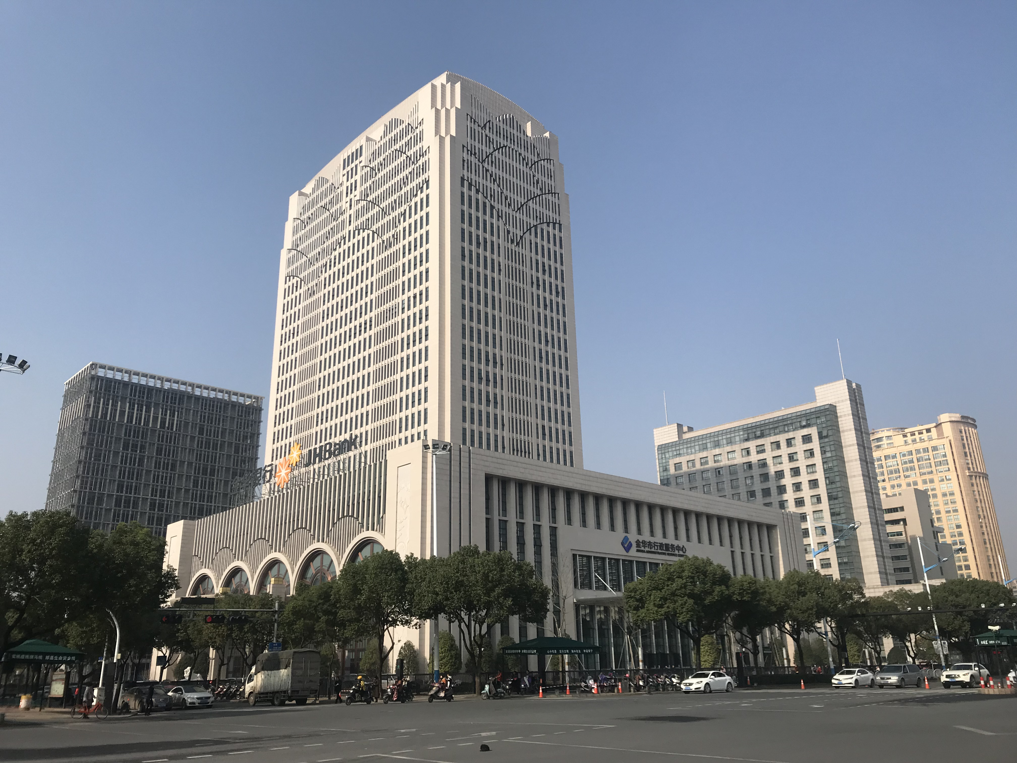 201812 Jinhua Caifu Mansion, enterprises like Jinhua Bank HQ, Civil Service center are located here.